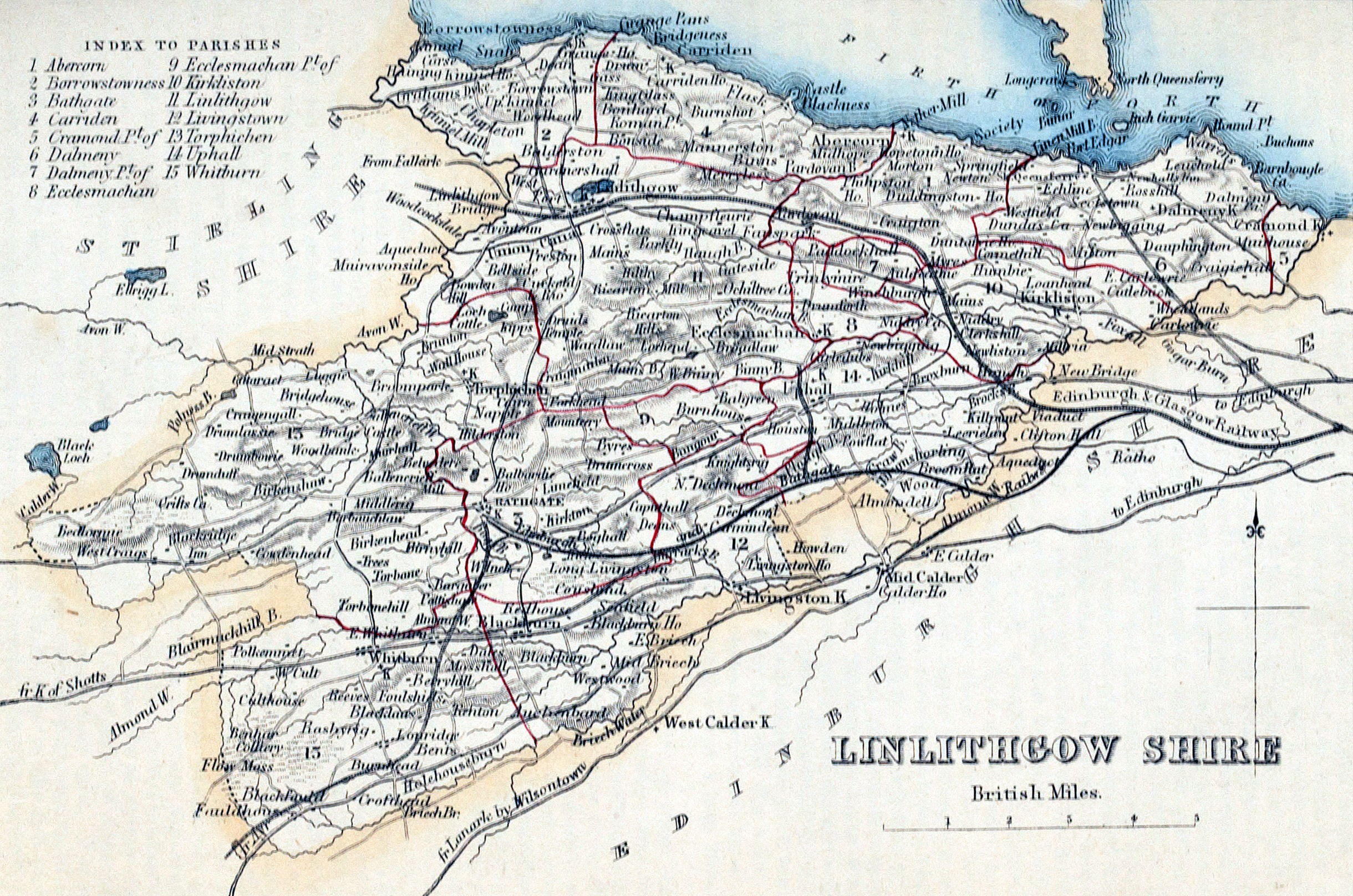 LINLITHGOWSHIRE Civil Parish map. The Imperial gazetteer of Scotland. Vol.II. by Rev. John Marius Wilson. Refer: Historical Account of Linlithgowshire. by John Penny.